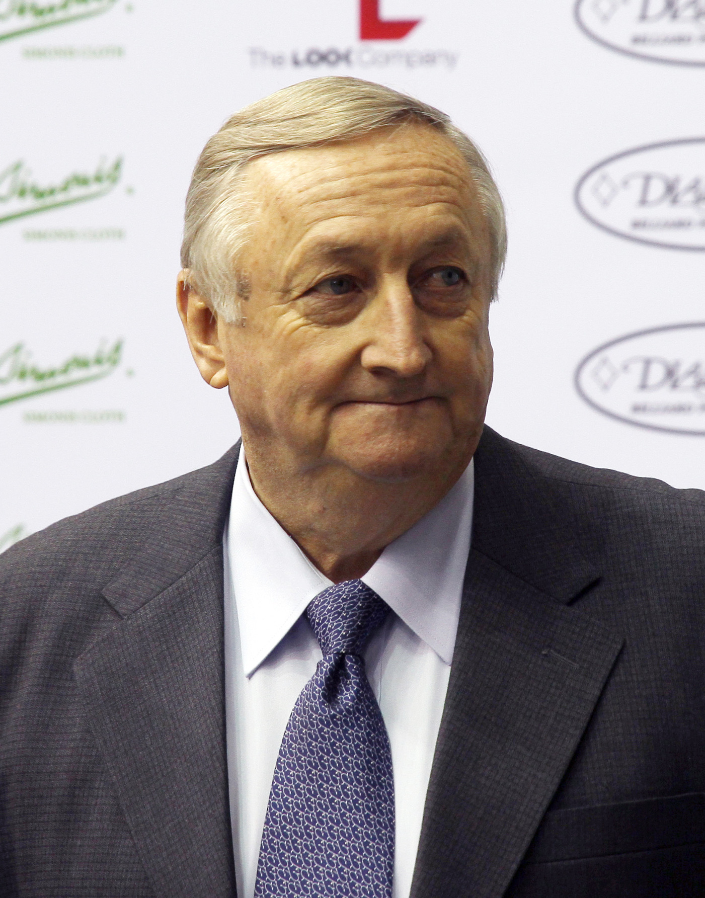 World Pool-Billiard Association President Ian Anderson at the World 9-Ball Pool Championship in Doha. Picture by Vinod Divakaran